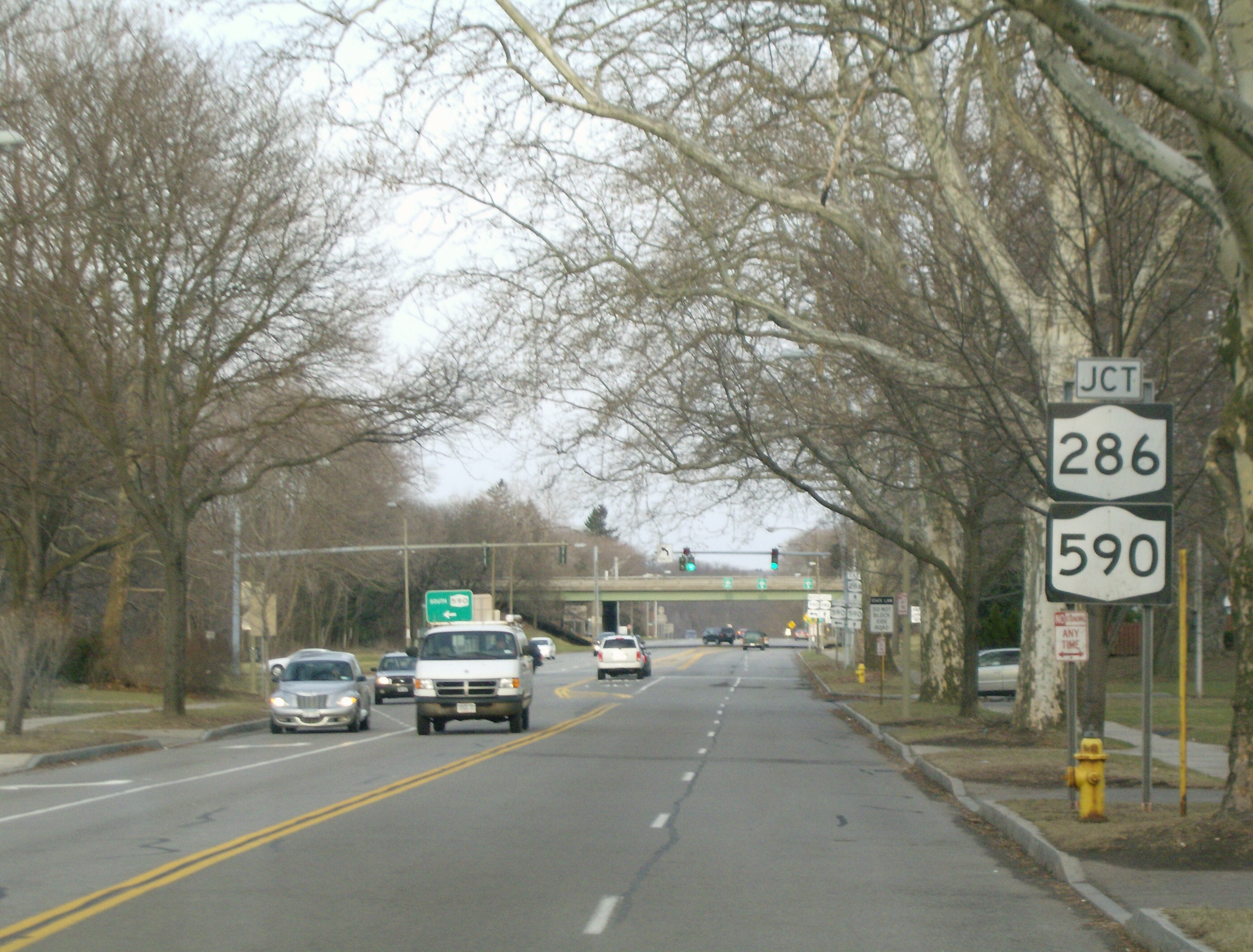 Approaching the western terminus of New York State Route 286 on Browncroft Boulevard eastbound.